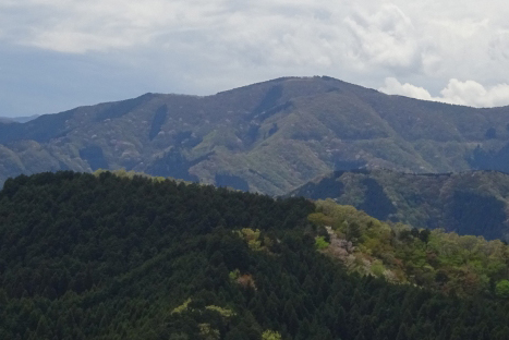 Mount Bonoore seen from the north. Taken at Tenryu-ji temple.